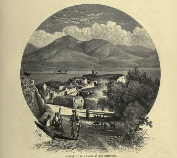 Caption: mount gilboa from sûlem (shunem)